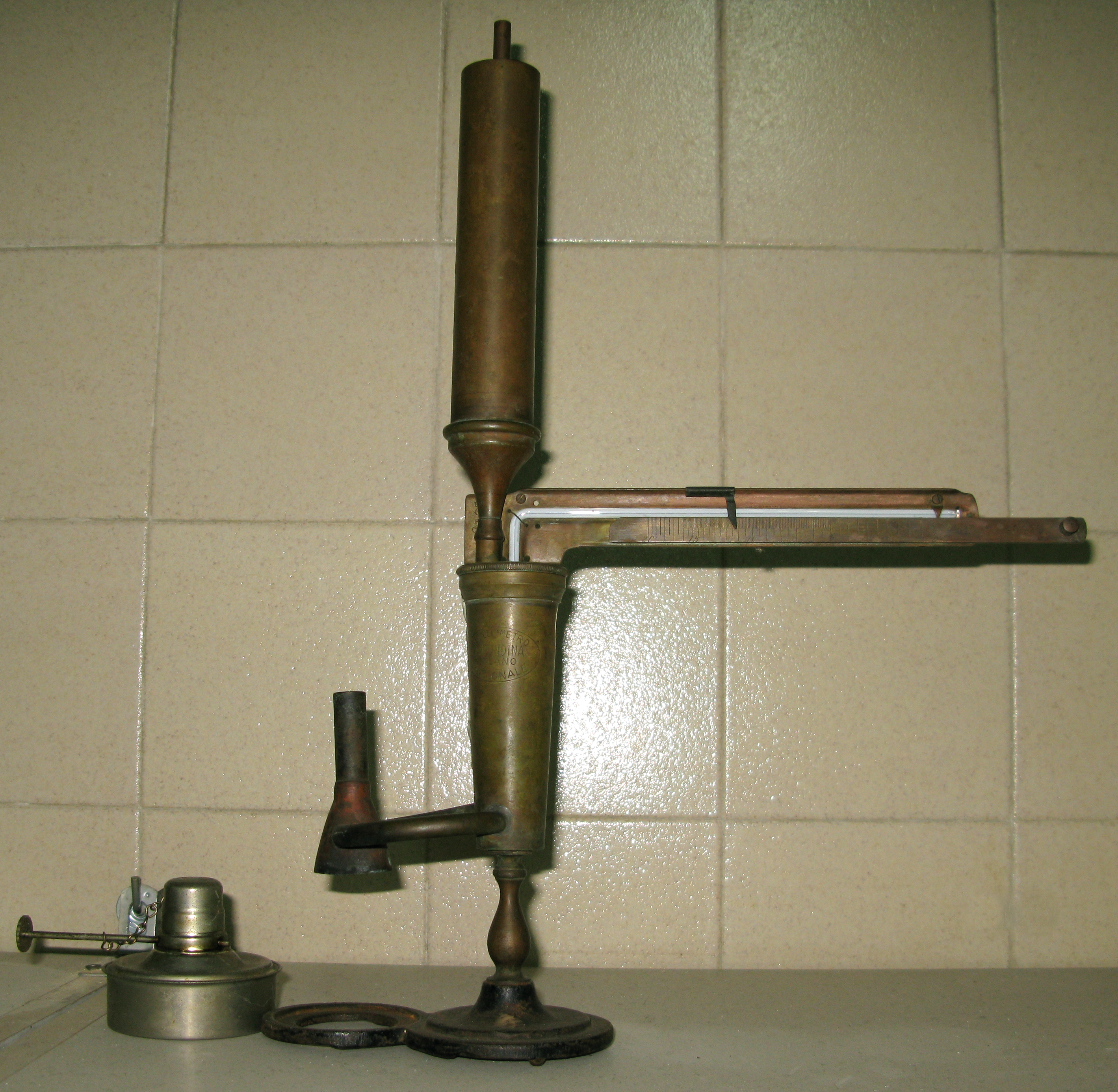 Malligand ebulliometer